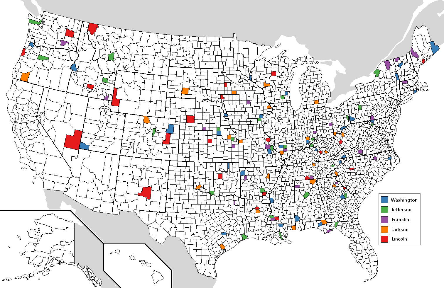 Map of the five most common US counties' names. Note: Those in Louisiana are parishes. Uses color scheme from the free to use color brewer Washington County Jefferson County Franklin County Jackson County Lincoln County